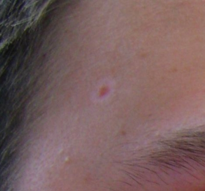 An example of a Halo Nevus (mole with white 'halo' around it), zoomed in/